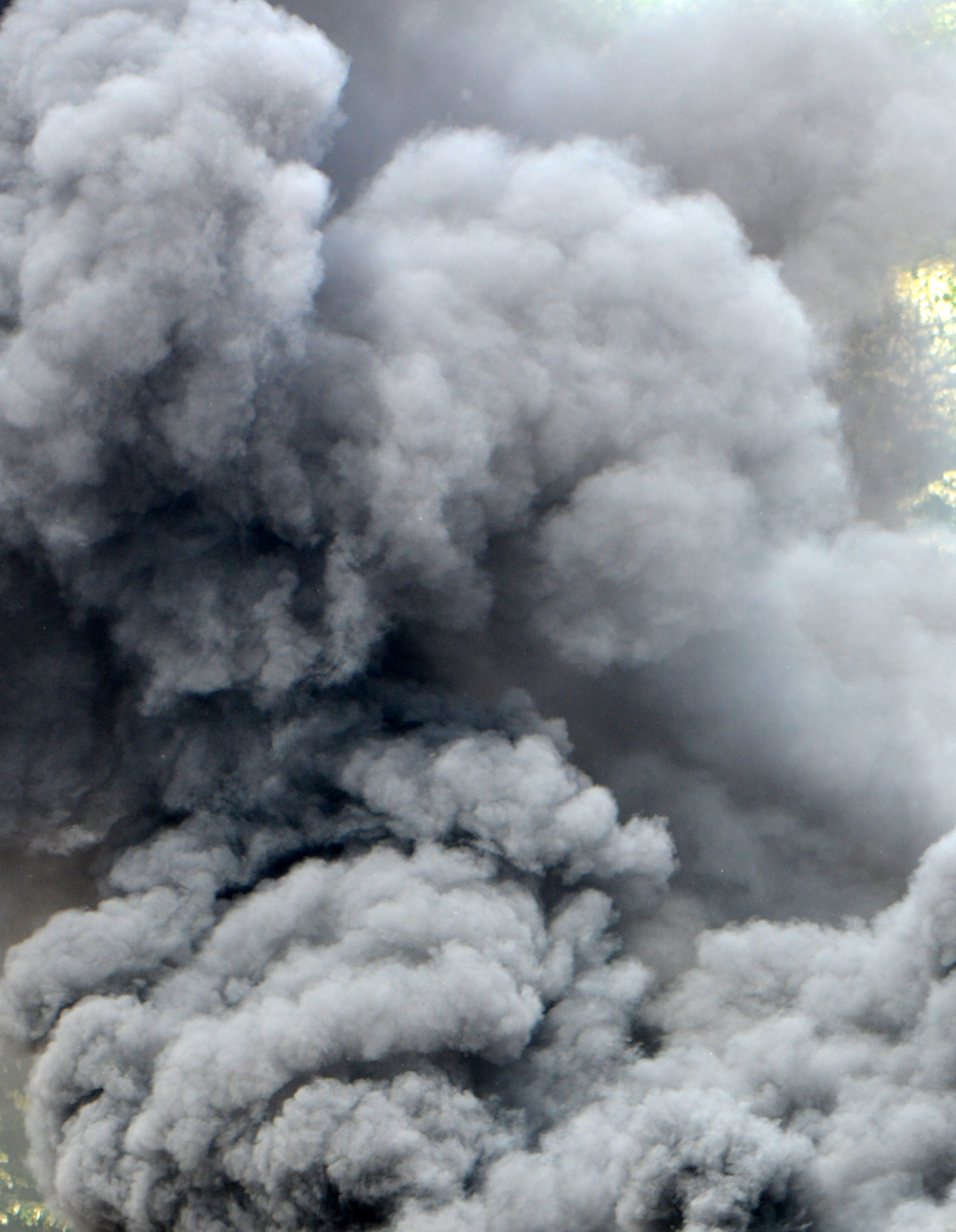 2017 27 June: a firefighters' procession denouncing a lack of resources and budgetary restrictions, demonstrated on the ring road then on the Boulevard de la Liberté and in front of the Place de la République by burning tires